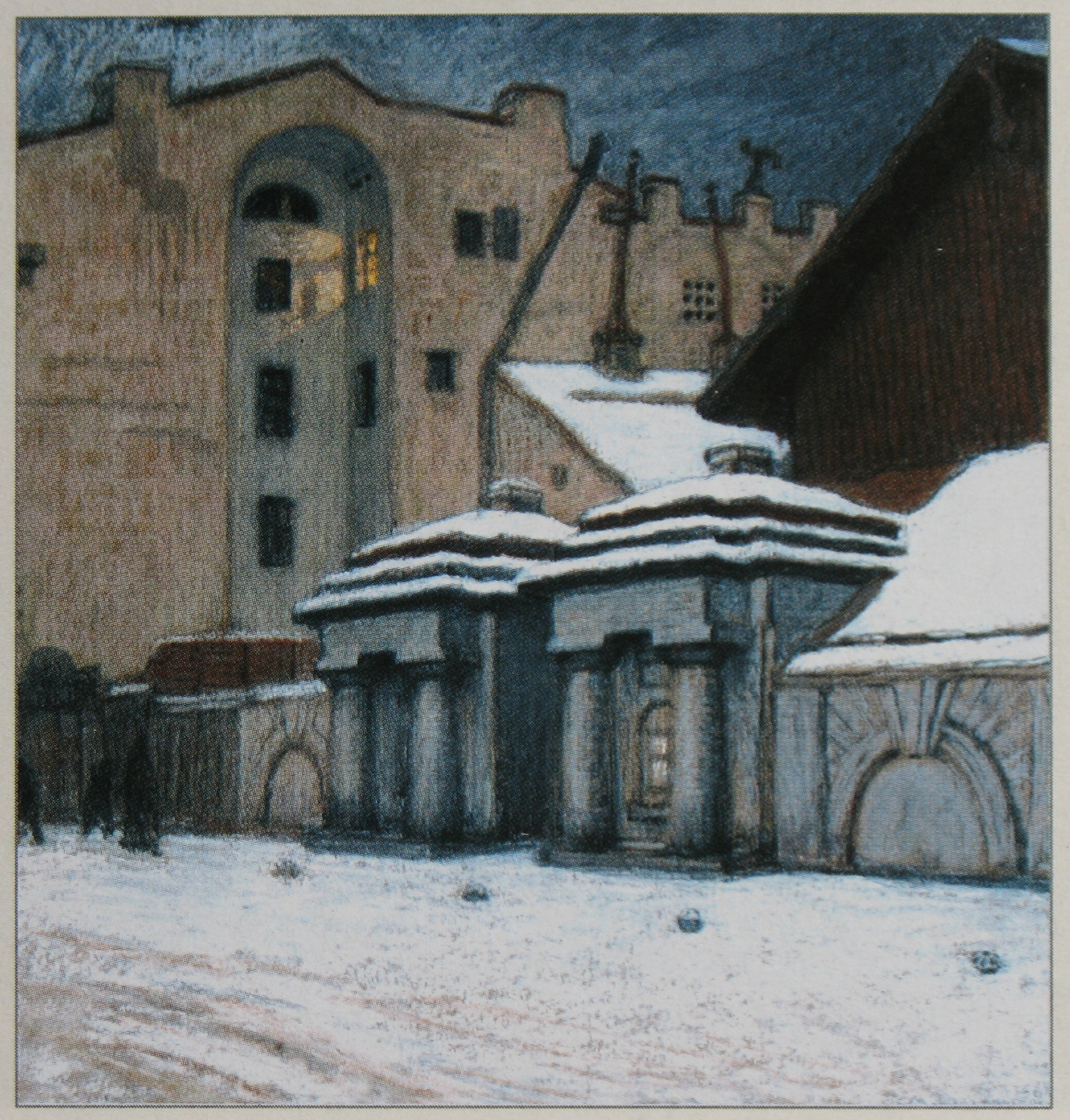 Mstislav Dobuzhinsky "Уголок Петербурга. Двор."